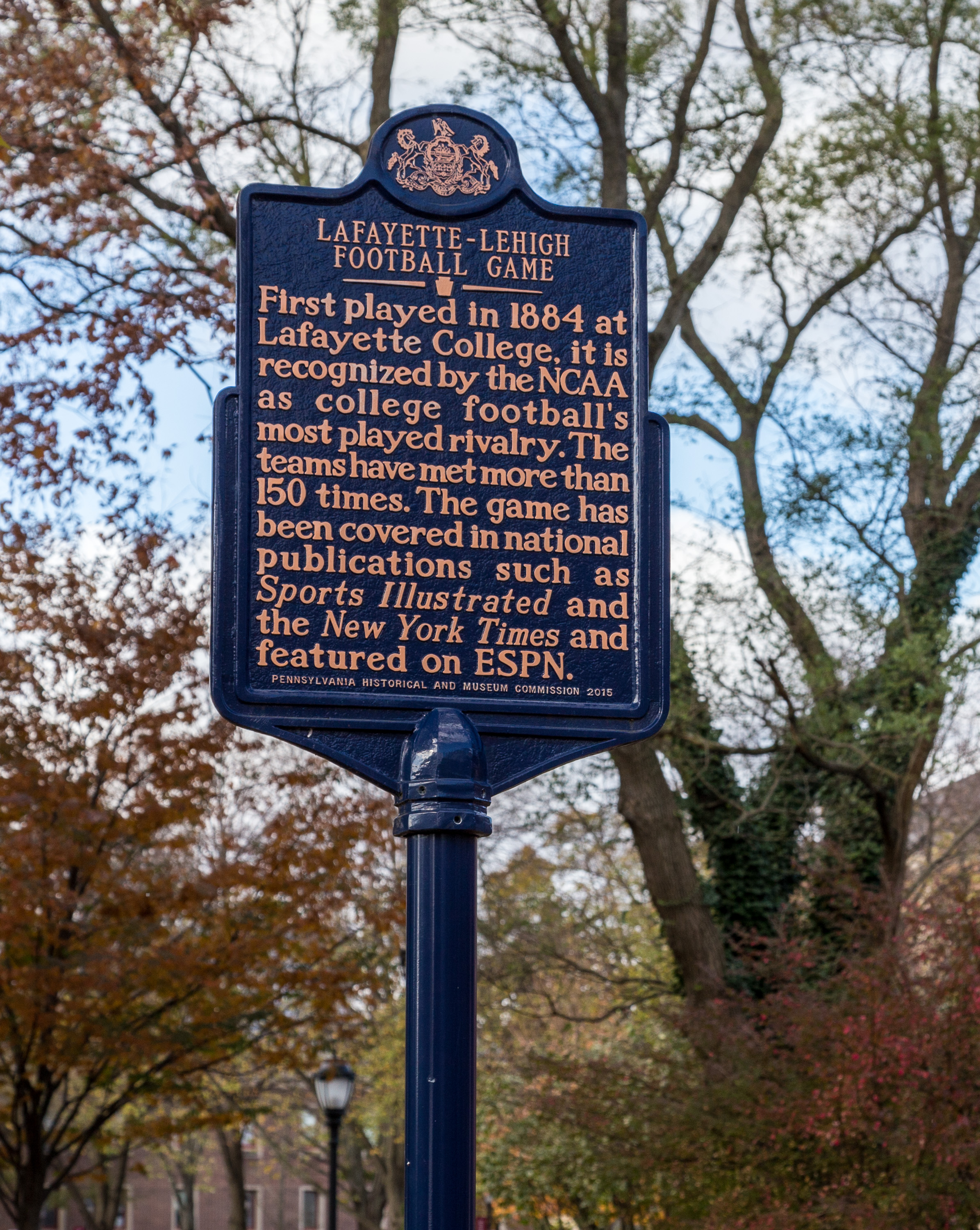 A plaque about the Lafayette-Lehigh Football rivalry on the campus of Lafayette College, Easton Pennsylvania